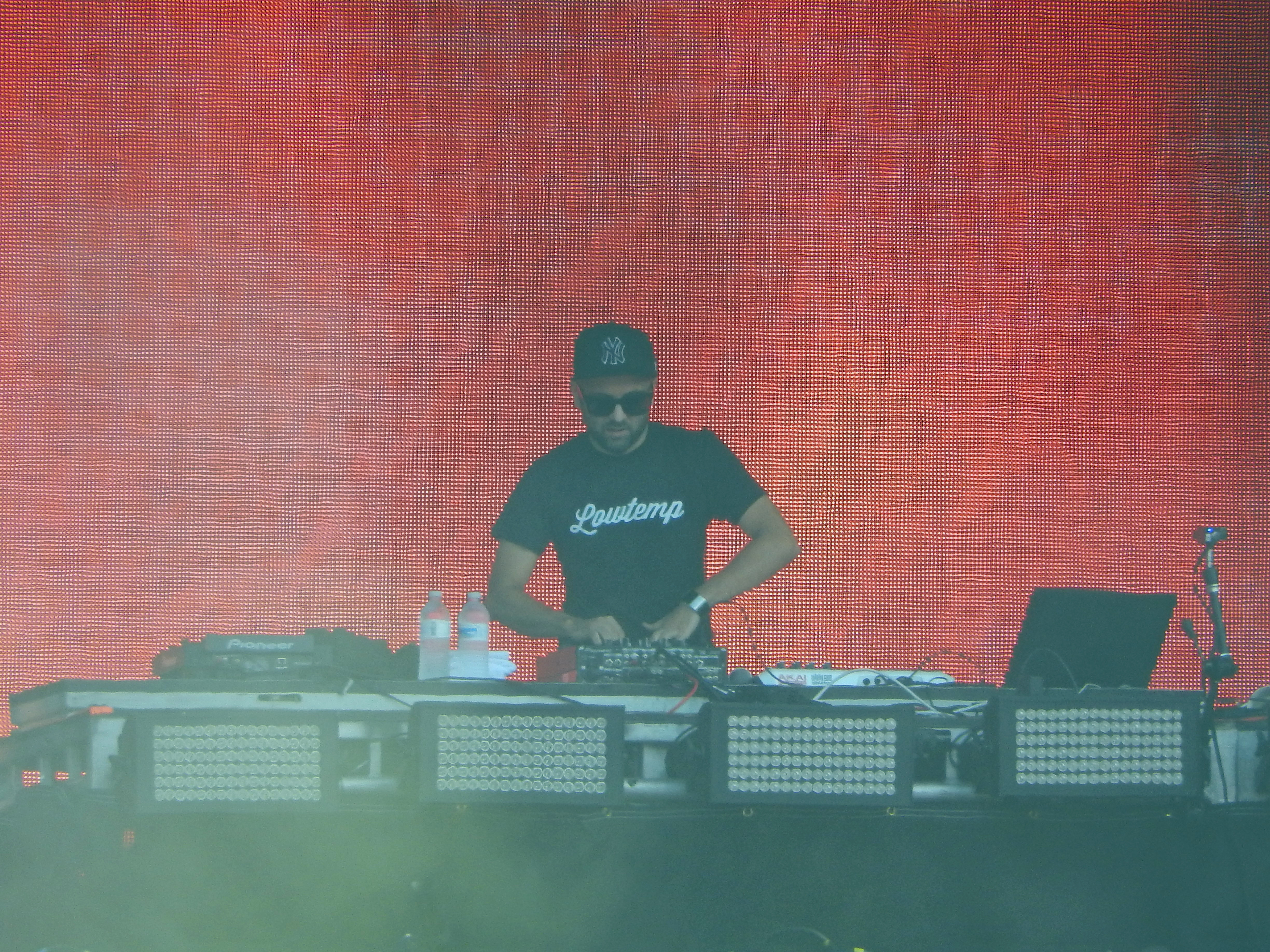 Gramatik at Lollapalooza